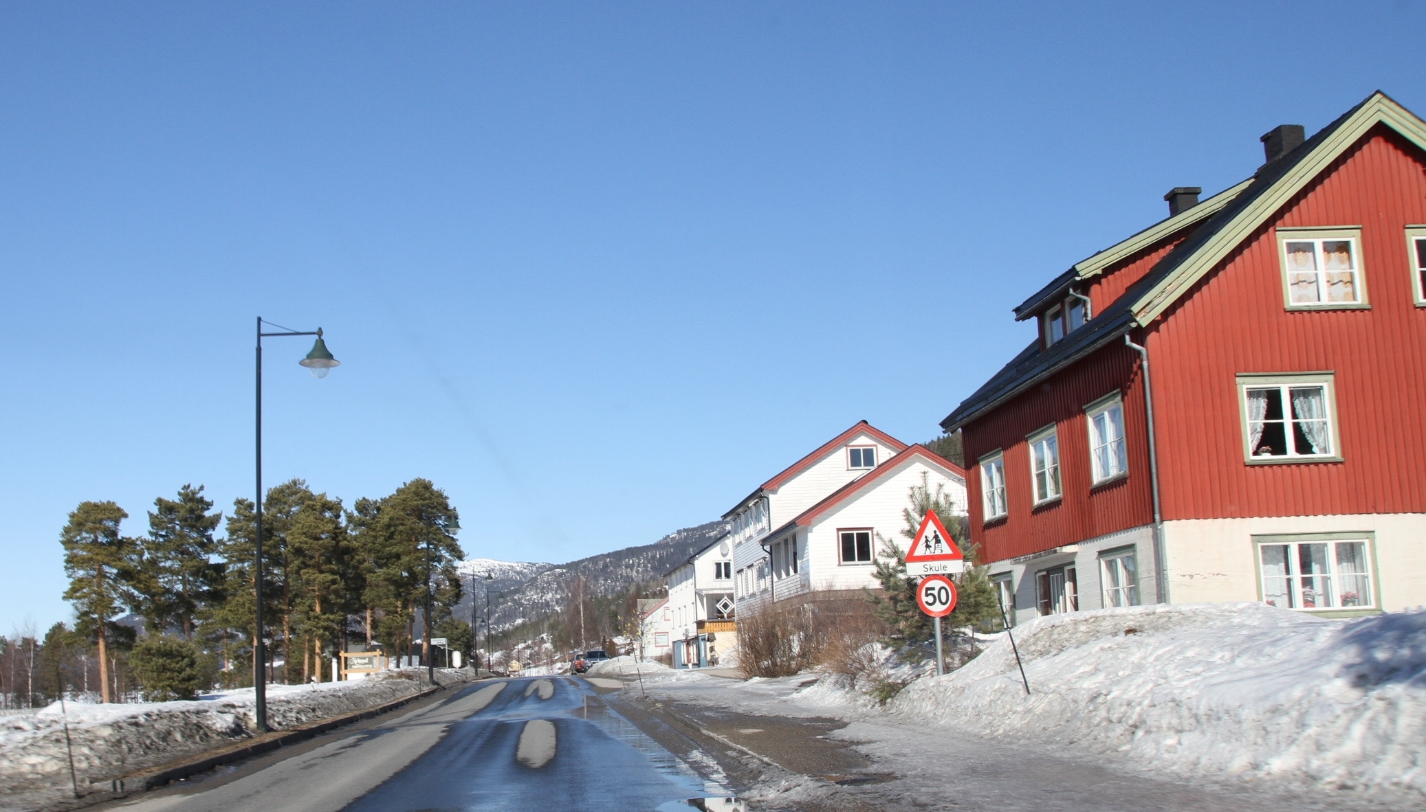 Image from the east shore of lake Nisser, in northern Nissedal municipality, Telemark county - Norway